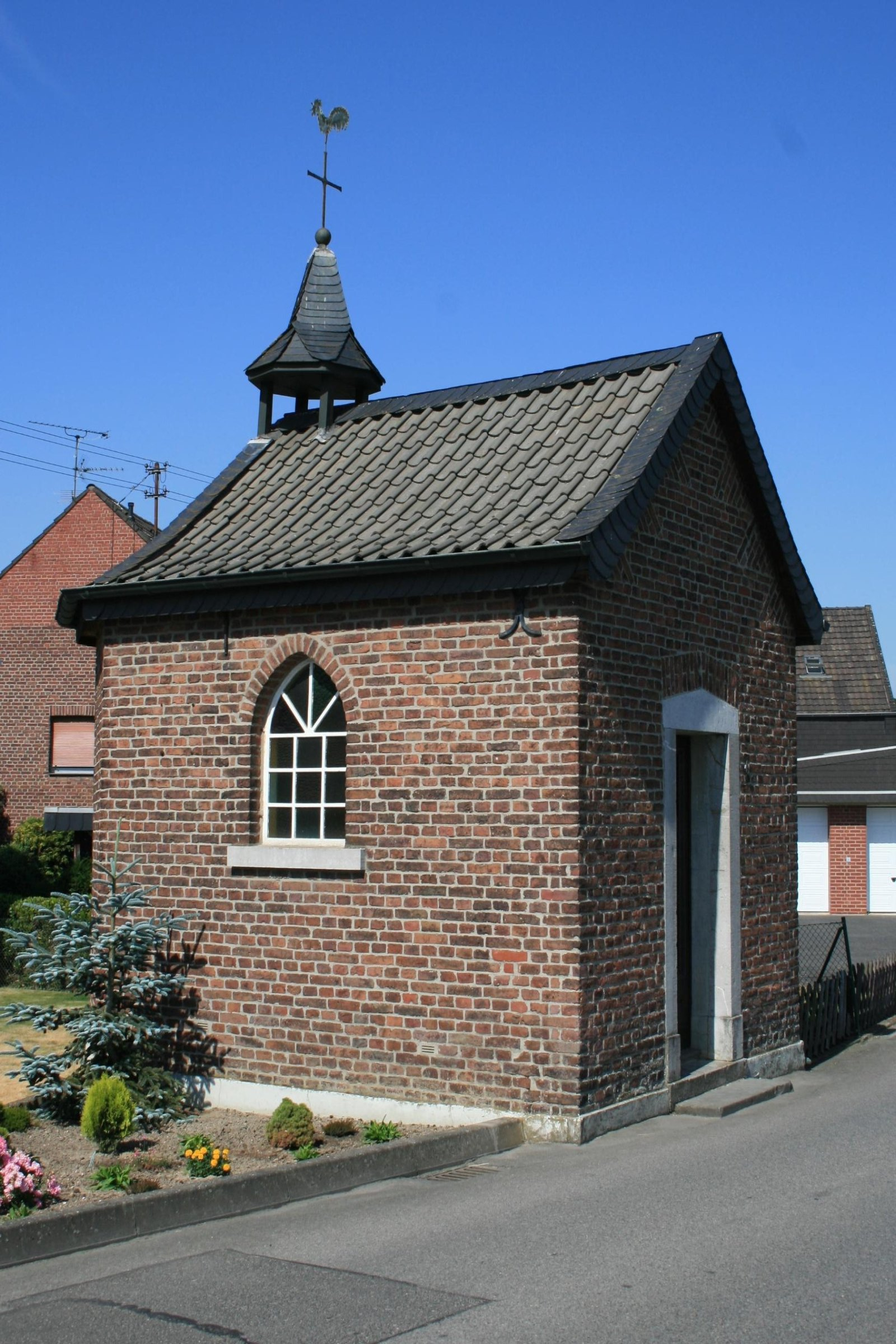 Cultural heritage monument No. G 023 in Mönchengladbach